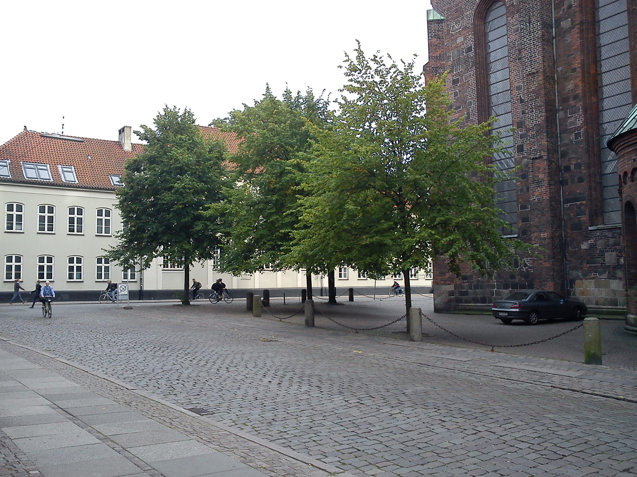 Domkirkepladsen